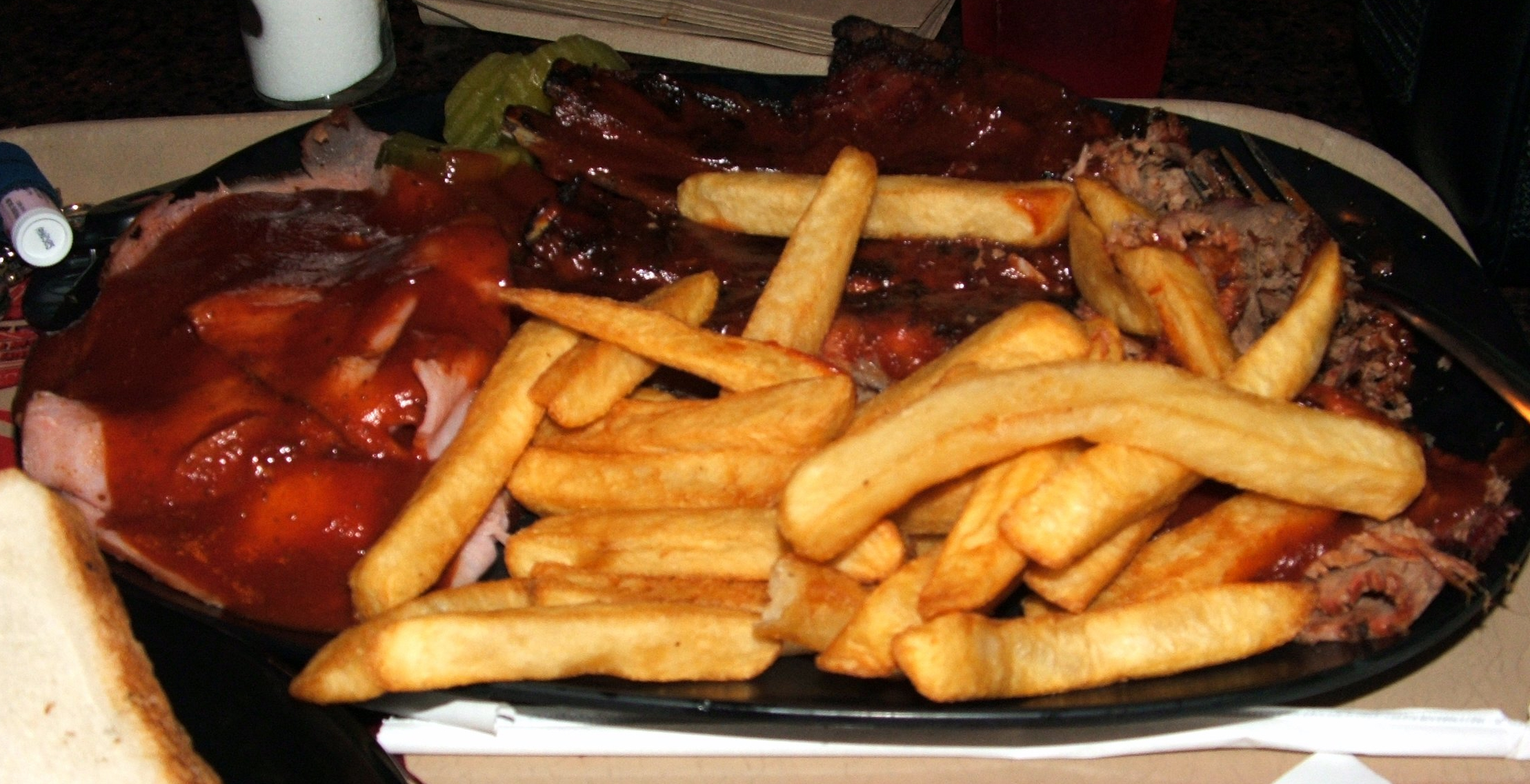 At Gates Barbecue in Kansas City. A combo plate of way too much food.